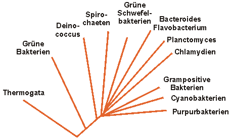 phylogeny of bacteria